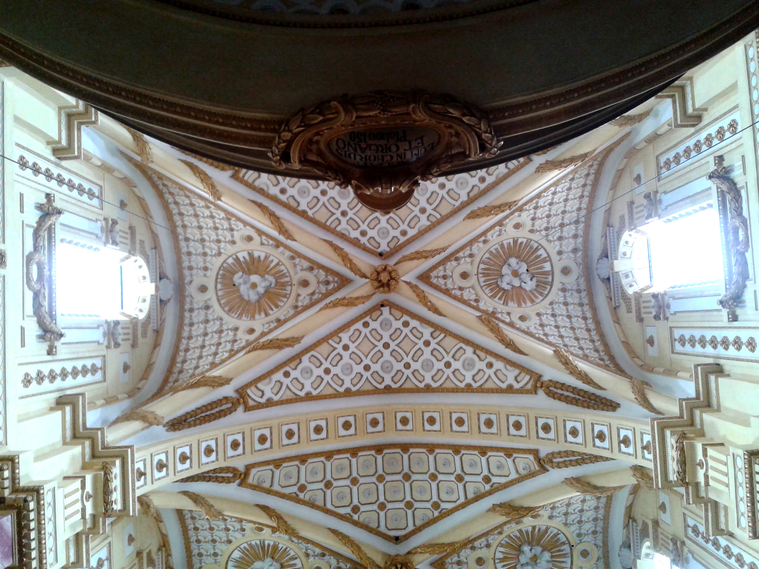 Kloster Ebrach Green Man